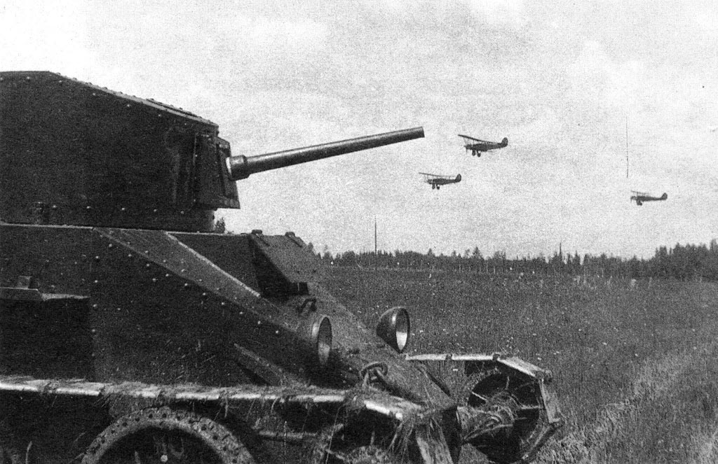 Soviet light tank BT-2 with gun turret and Polikarpov R-5.